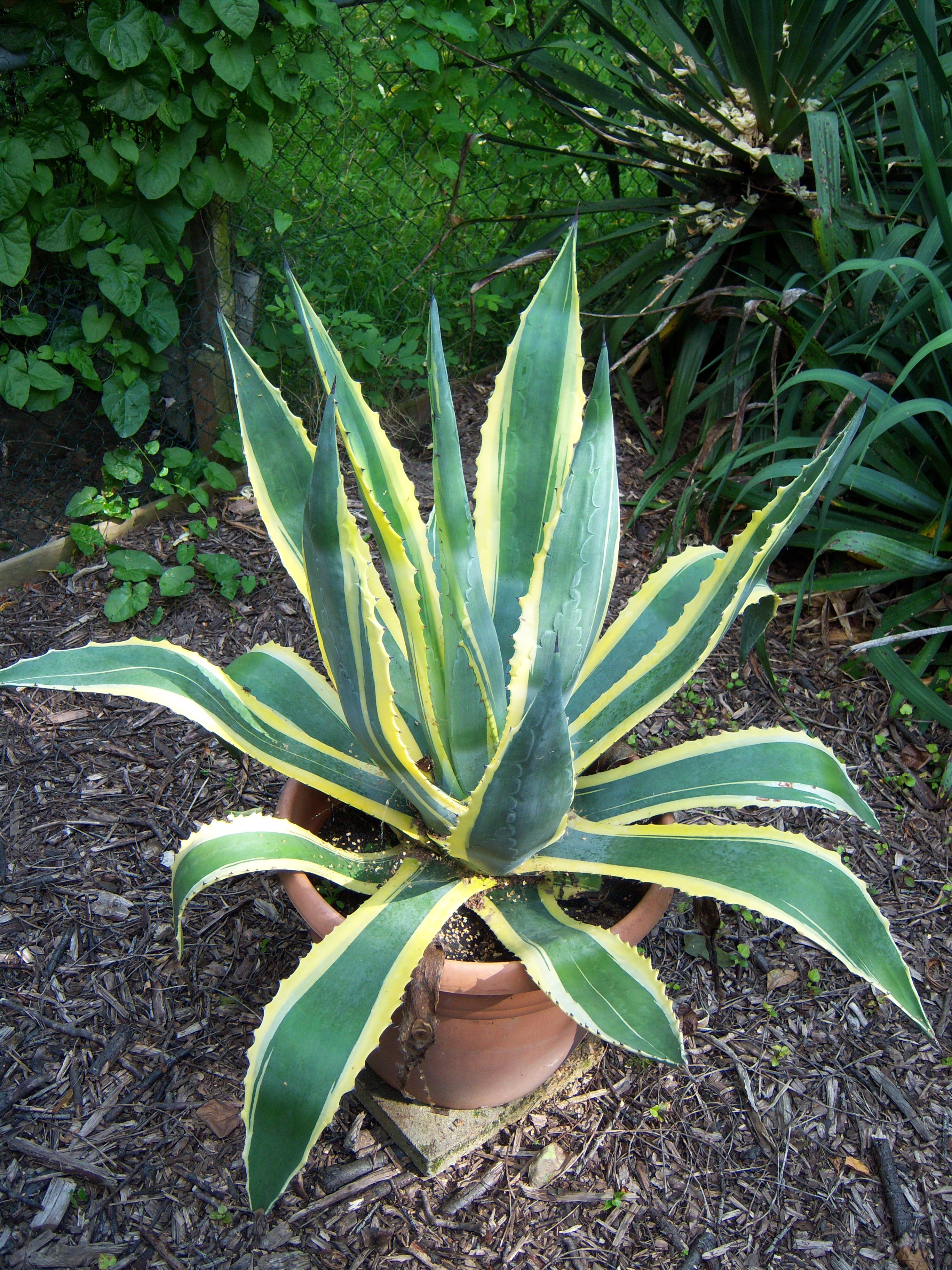 Agave Americana in the Netherlands